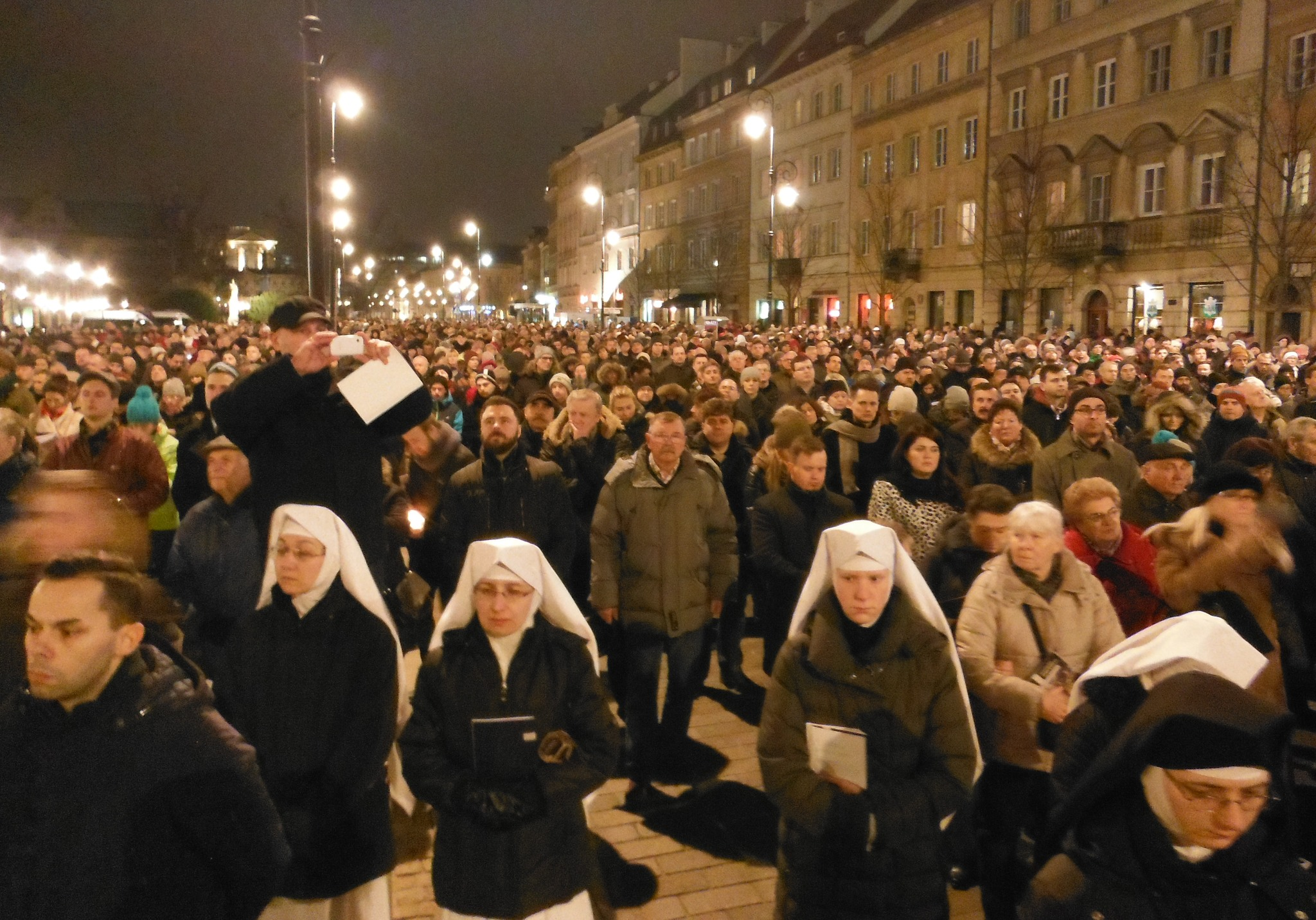 Cross procession in Warsaw (25th of March 2016).